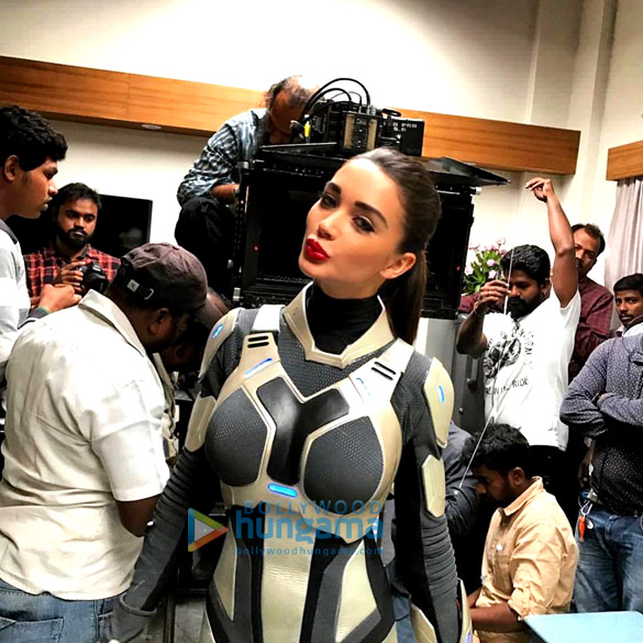 2.0 (film): Amy Jackson as female humanoid Robot